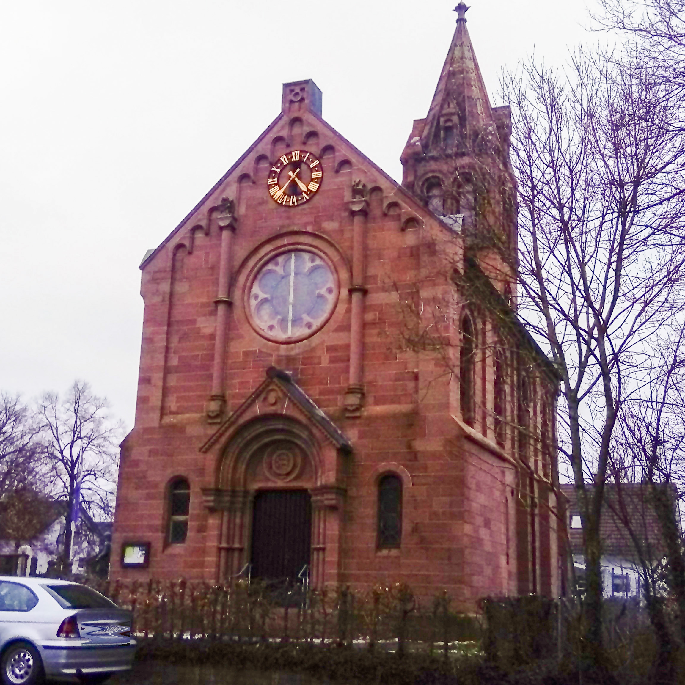 Henri-Arnaud church in Baden-Württemberg (germany)